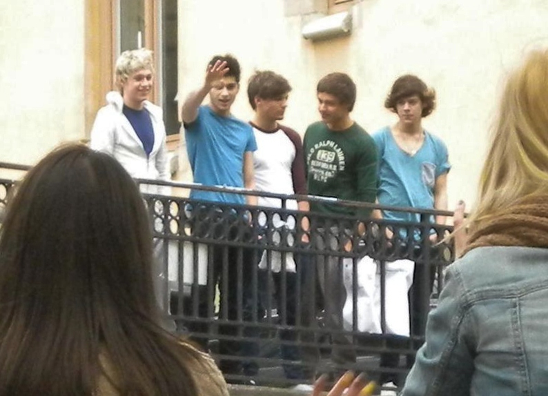 Boy band One DirectionPlace: Mosebacke torg, Stockholm, Sweden